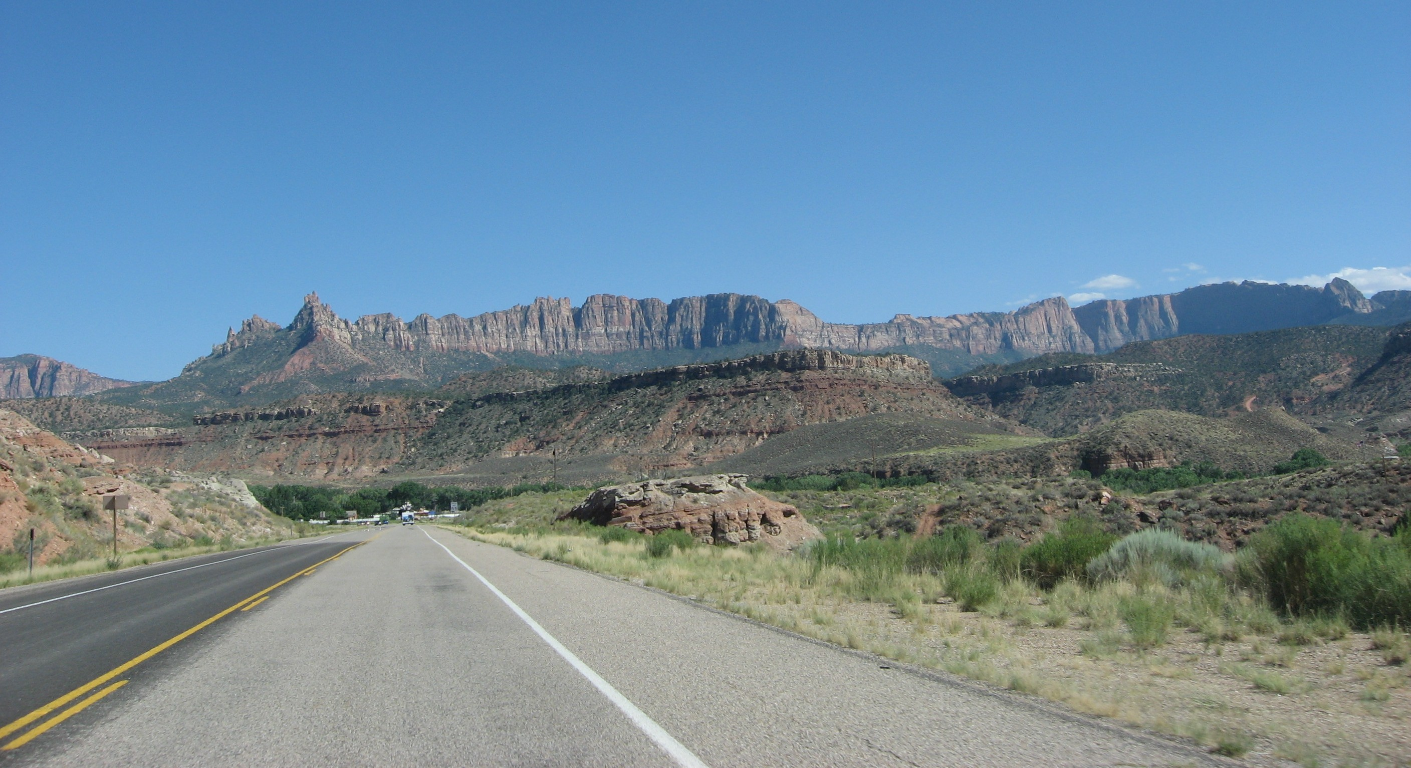 Utah State Route 9 in Rockville, Utah.